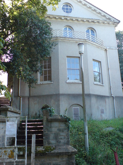 Foley House Another of Haverfordwest's fine dilapidated buildings. Built by John Nash for Richard Foley, whose brother Admiral Thomas Foley served with Nelson at Cape St. Vincent.